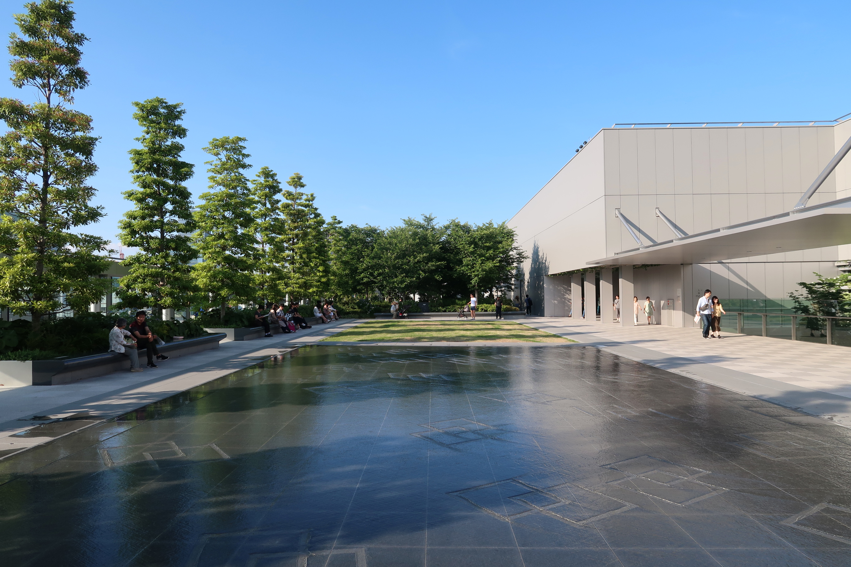 GINZA SIX Roof Garden